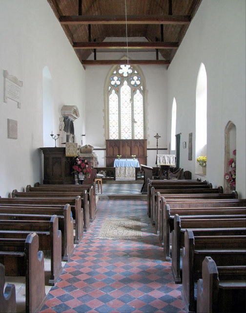 St Michael, Oxnead, Norfolk - East end